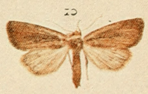 Plate 145. Fig. 10. DescriptionBinomial in textModern accepted nameSmall Rufous Moth. Cœnobia rufaCoenobia rufa